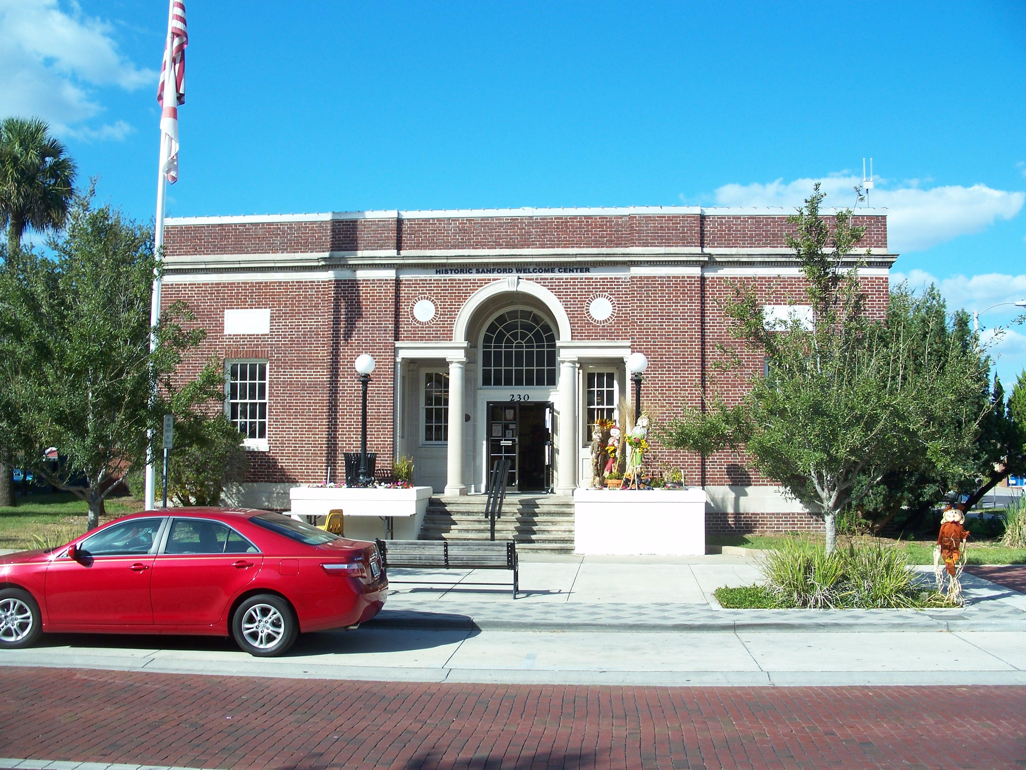 Sanford, Florida: Sanford Commercial District: Welcome Center, originally a US post office, built in 1917